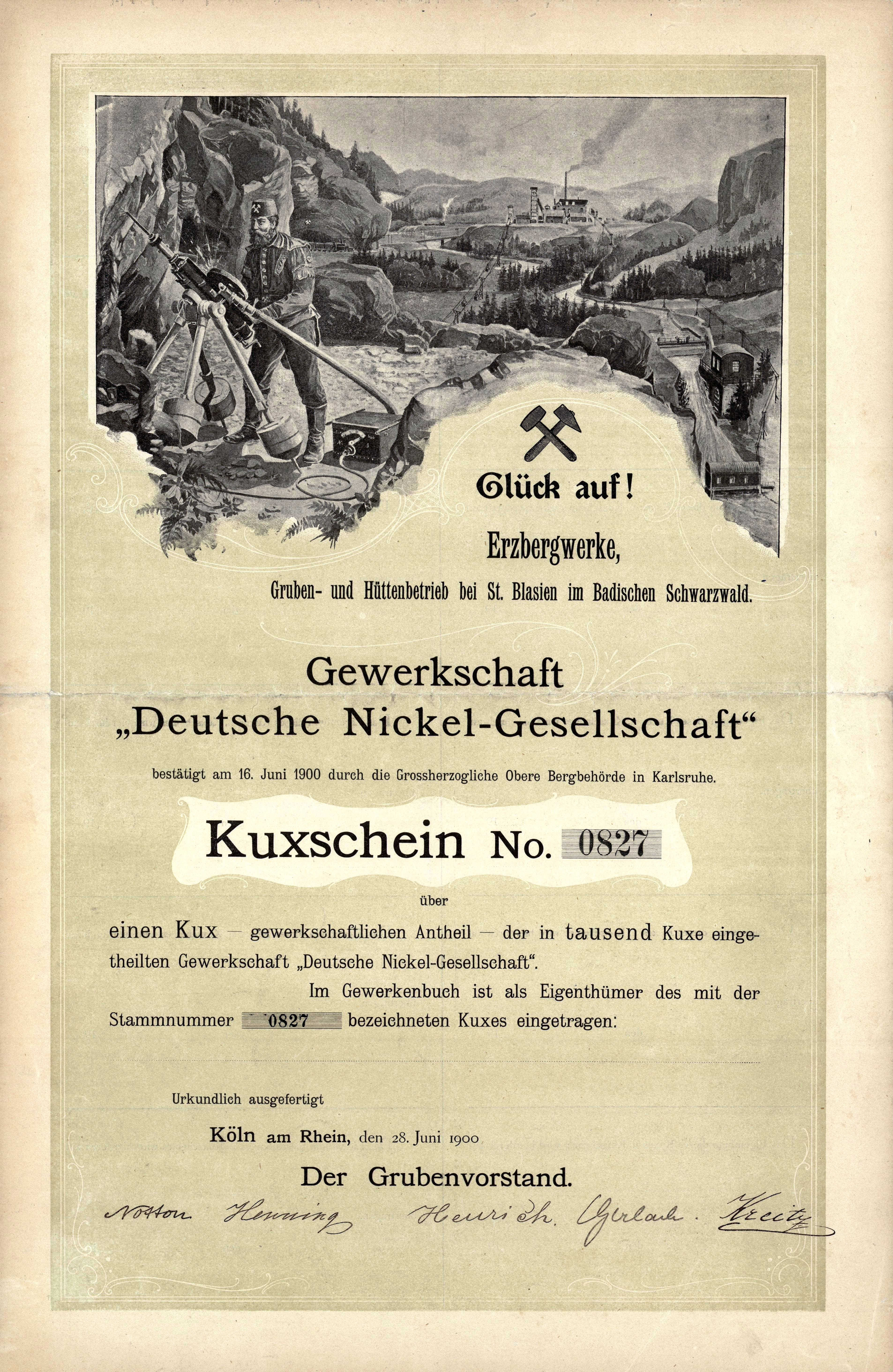 Mining share of the Gewerkschaft "Deutsche Nickel-Gesellschaft", issued 28. June 1900